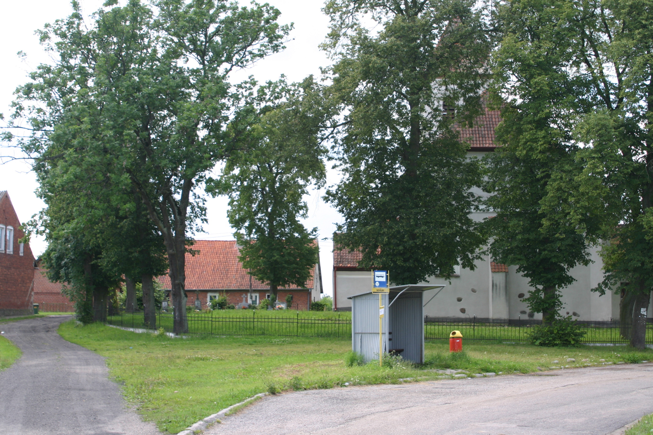 Momajny - OpenStreetMap(Info)